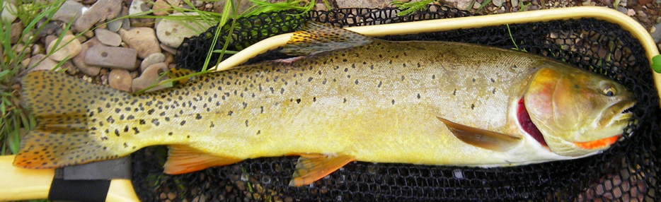 Oncorhynchus clarki utah — Bonneville cutthroat trout. Endemic fish species of Utah.